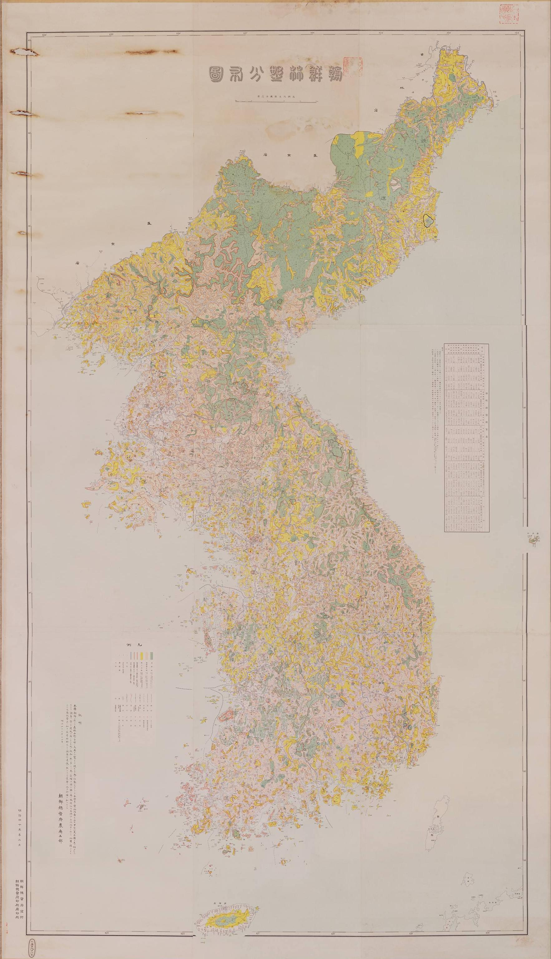 A map of the distribution of forests and fields in Japanese-occupied Korea, with a scale in Japanese ri. 12.5% of the original image size. Full size image can be obtained from National Archives of Japan (jaen)